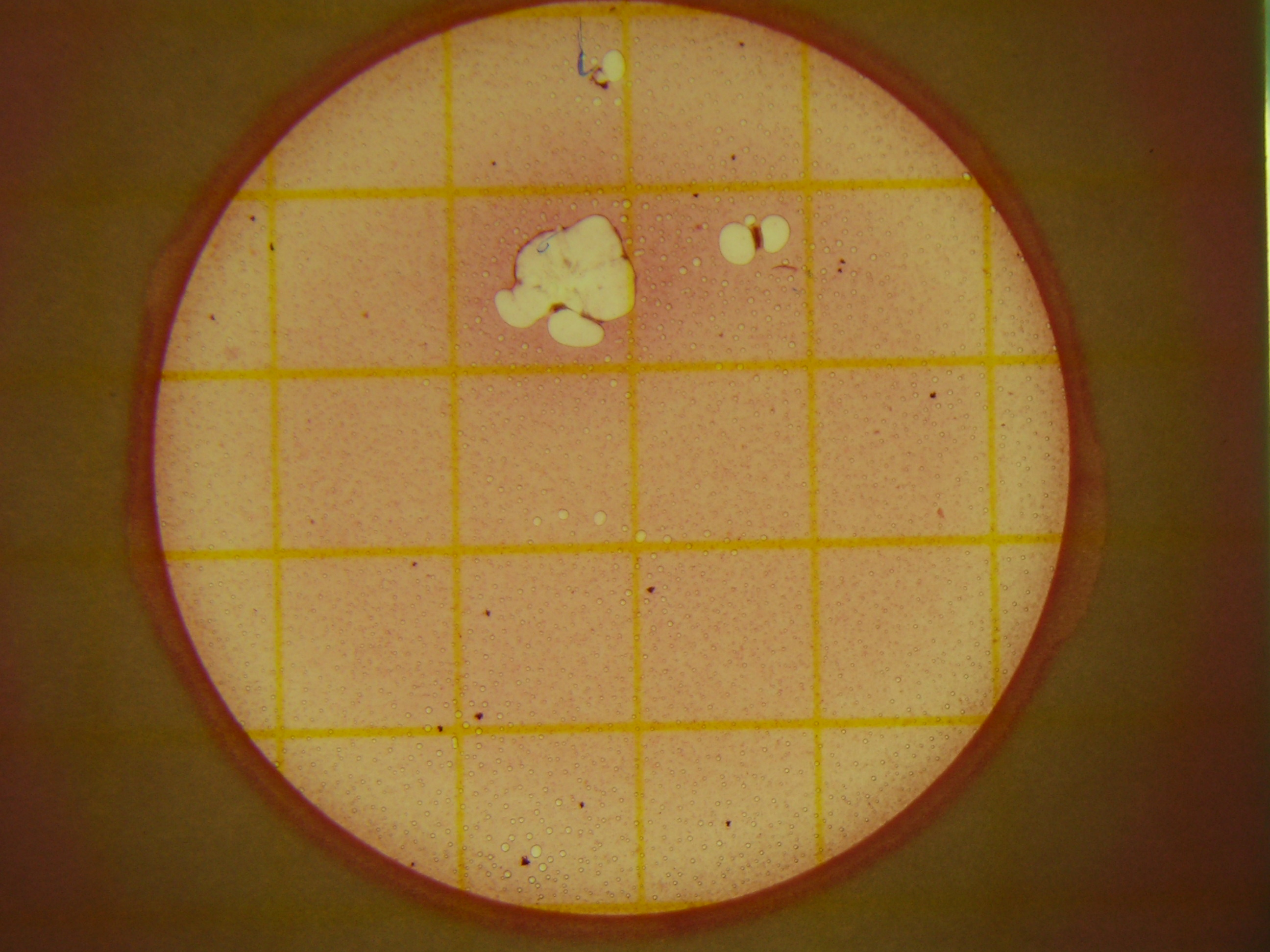 The food sample on this E. coli/Coliform count (EC) Petrifilm plate has tested positive for coliforms. Coliforms appear as red colonies surrounded by bubbles due to fermentation. Created and uploaded by Achiu31 18:46, 8 April 2007 (UTC)